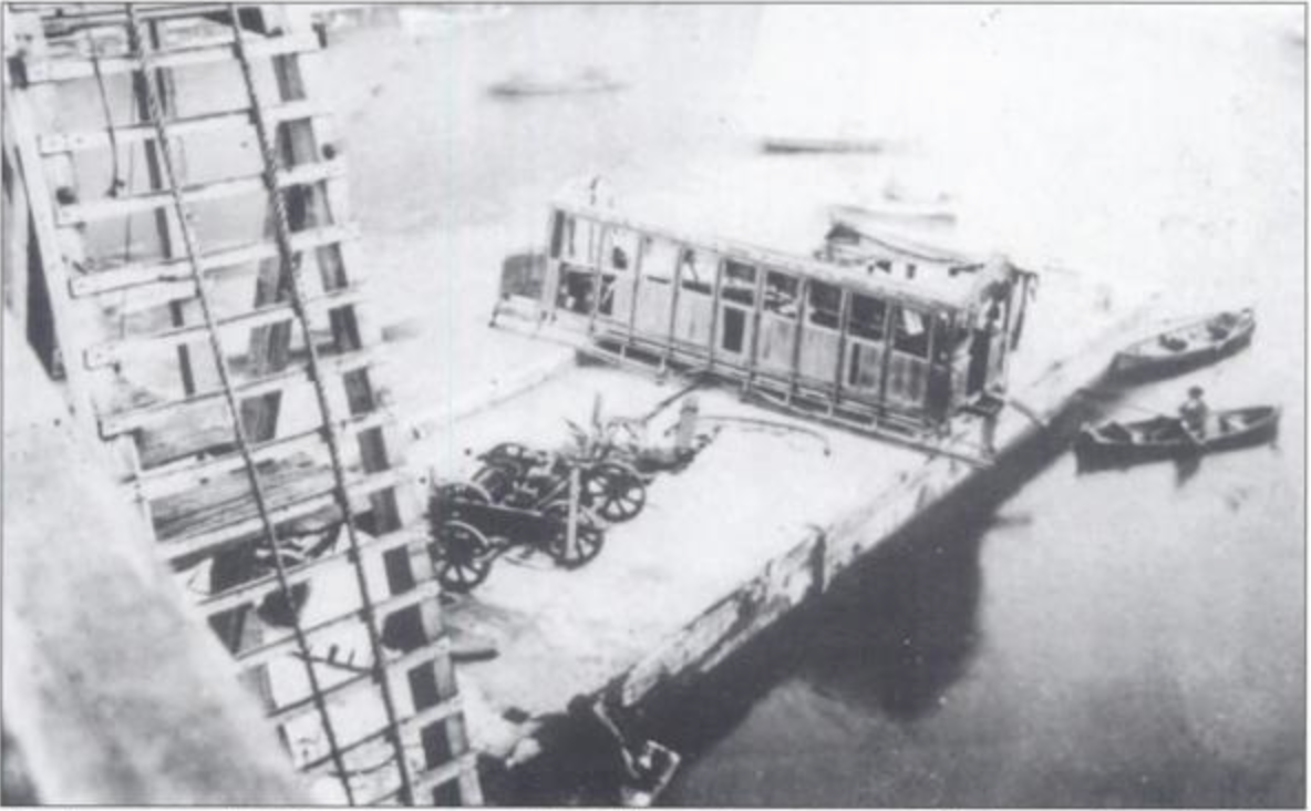 Street car Inez, after being pulled from the Willamette River on November 1, or 2, 1893.